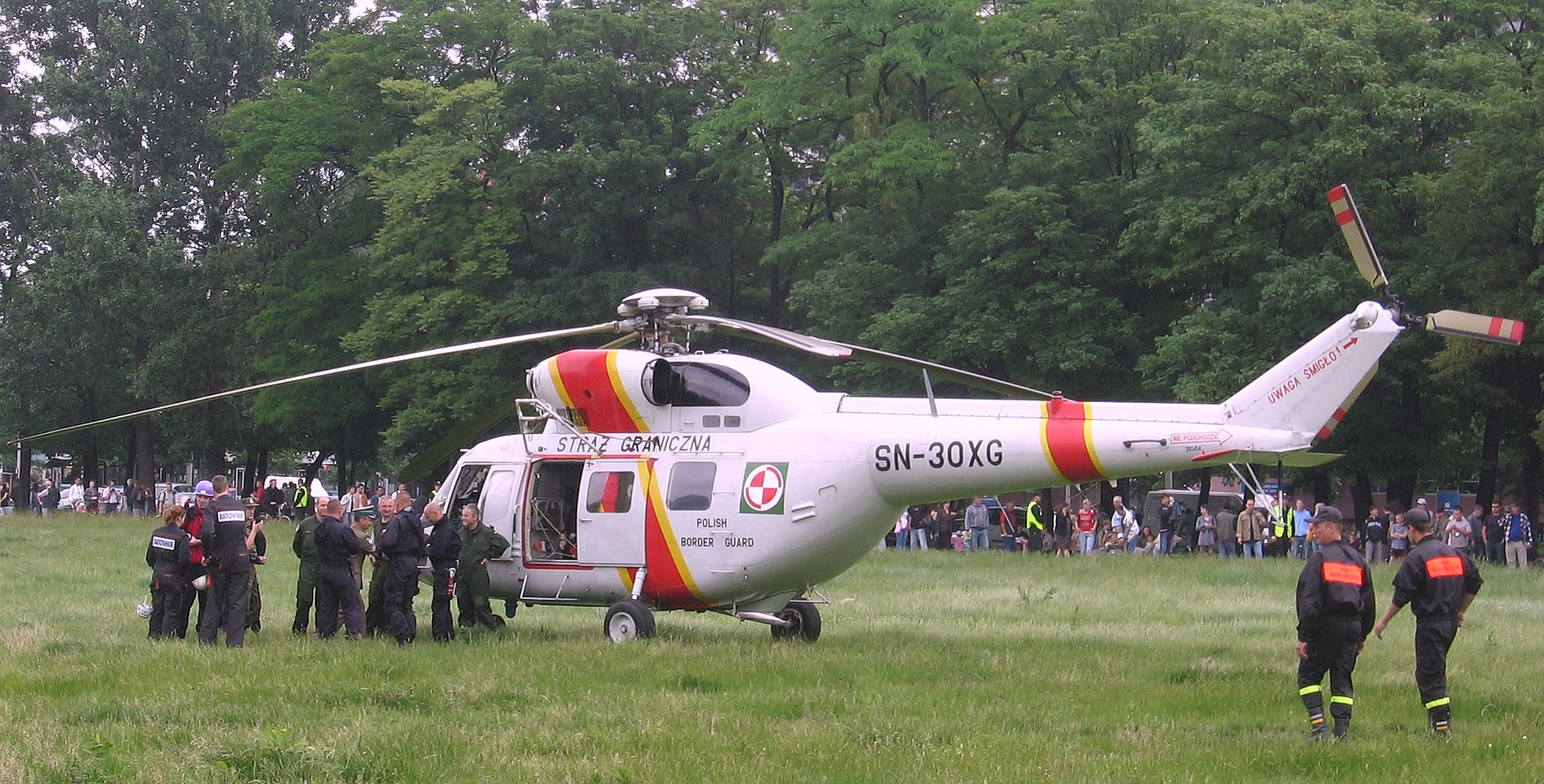 Polish Border Guard W-3 helicopter (SN-30XG) during exercise in Wrocław